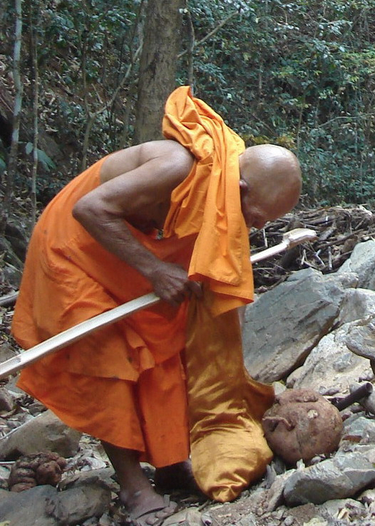 a monk in the Buddhism seeks herbs (Stephania venosa (Blume) Spreng.) in the forest adjoin Ban Thung Reservoir, in Ban Thung, Pha Chuk subdistrict, Mueang Uttaradit, Uttaradit Province, Thailand.